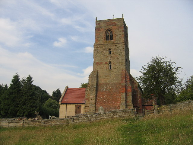 St Giles' parish church, Bubbenhall, Warwickshire, seen from the southwest